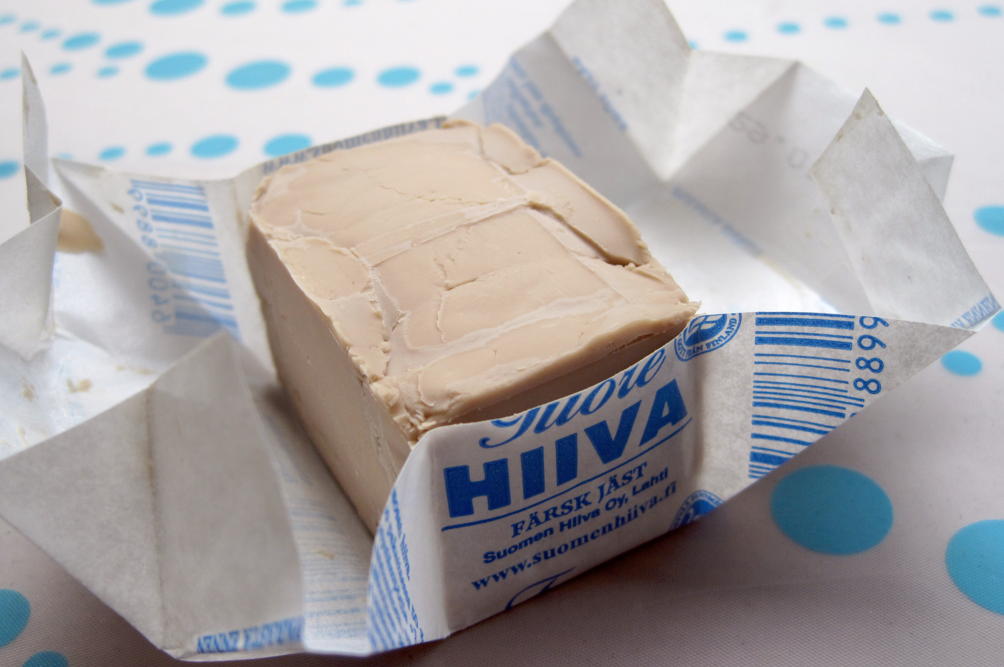 An opened 50 g package of compressed yeast, produced and bought in Finland.